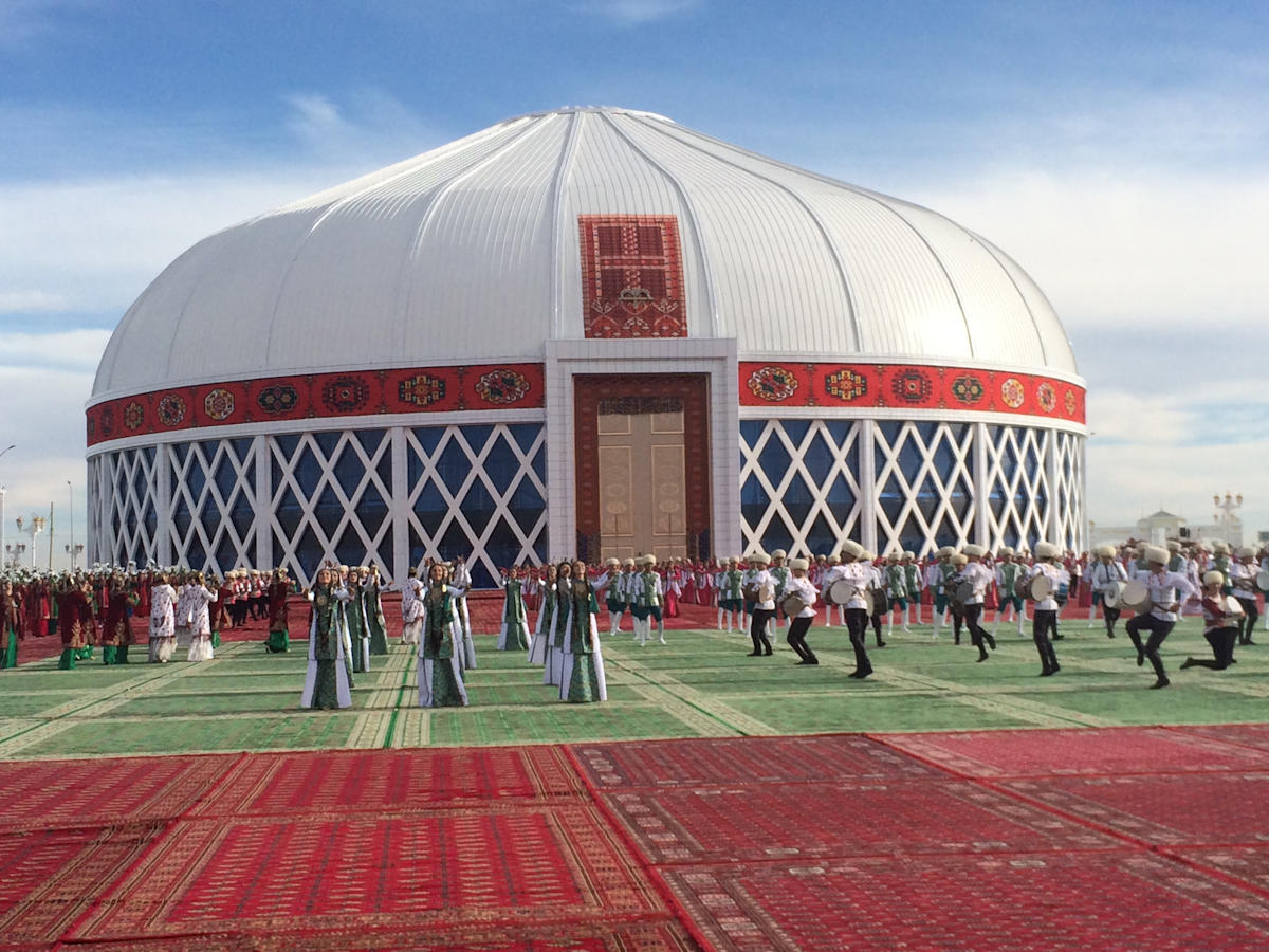 "World's Largest Yurt" located 10 km west of Mary, Turkmenistan, dedicated on November 27, 2015.